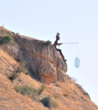 asad statue sitting with the sea of galilee